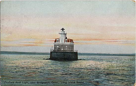 1913 Postcard showing Penfield Reef Lighthouse in Fairfield, Connecticut.